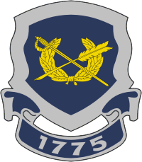 Judge Advocate General's Corps regimental distinctive insignia.